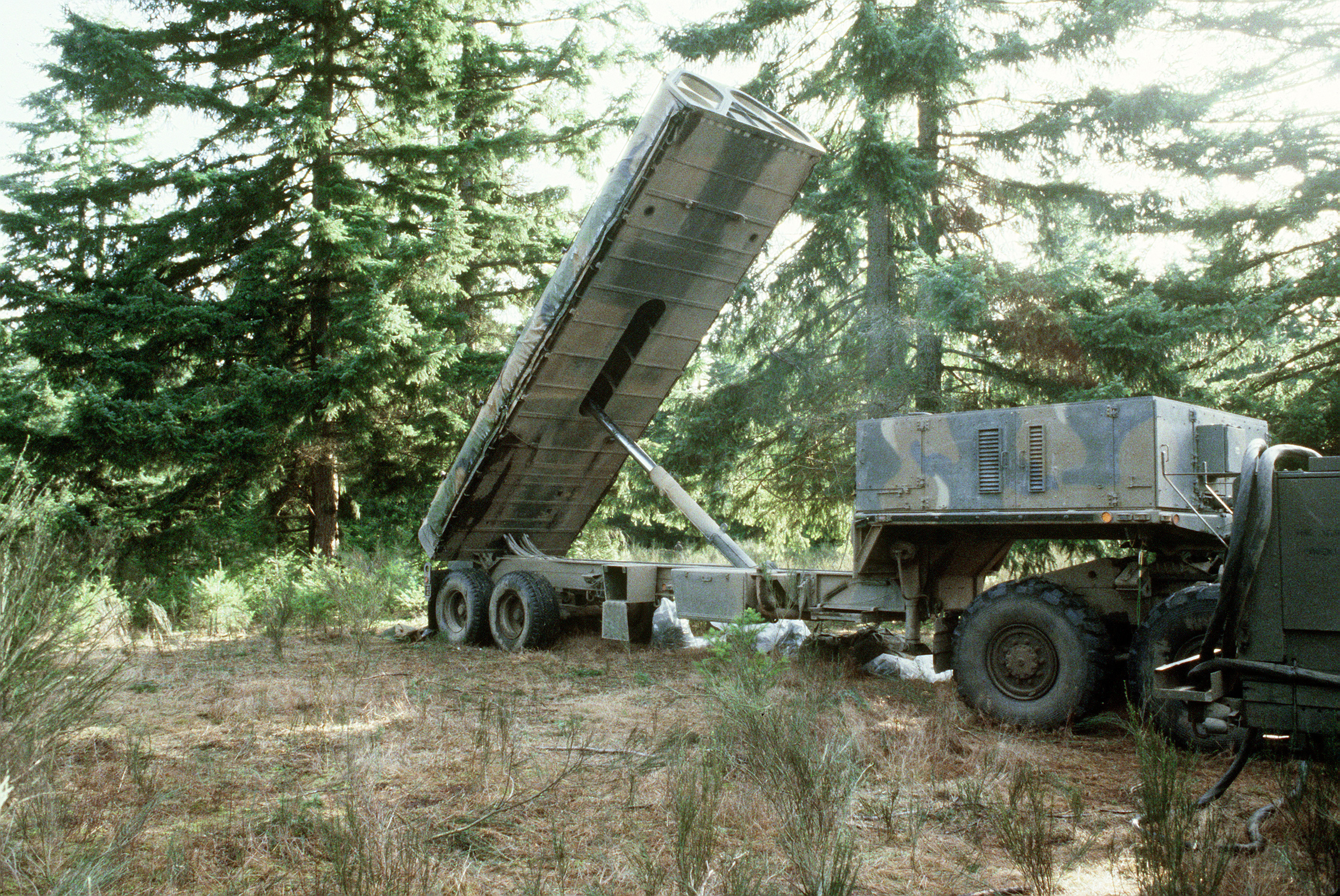 A launching unit for BGM-109G Gryphon missiles